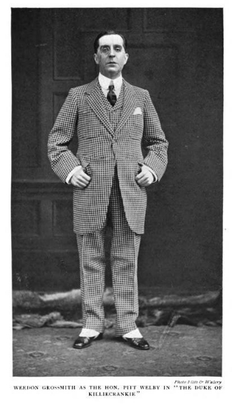 Weedon Grossmith in The Duke of Killiekrankie by Robert Marshall